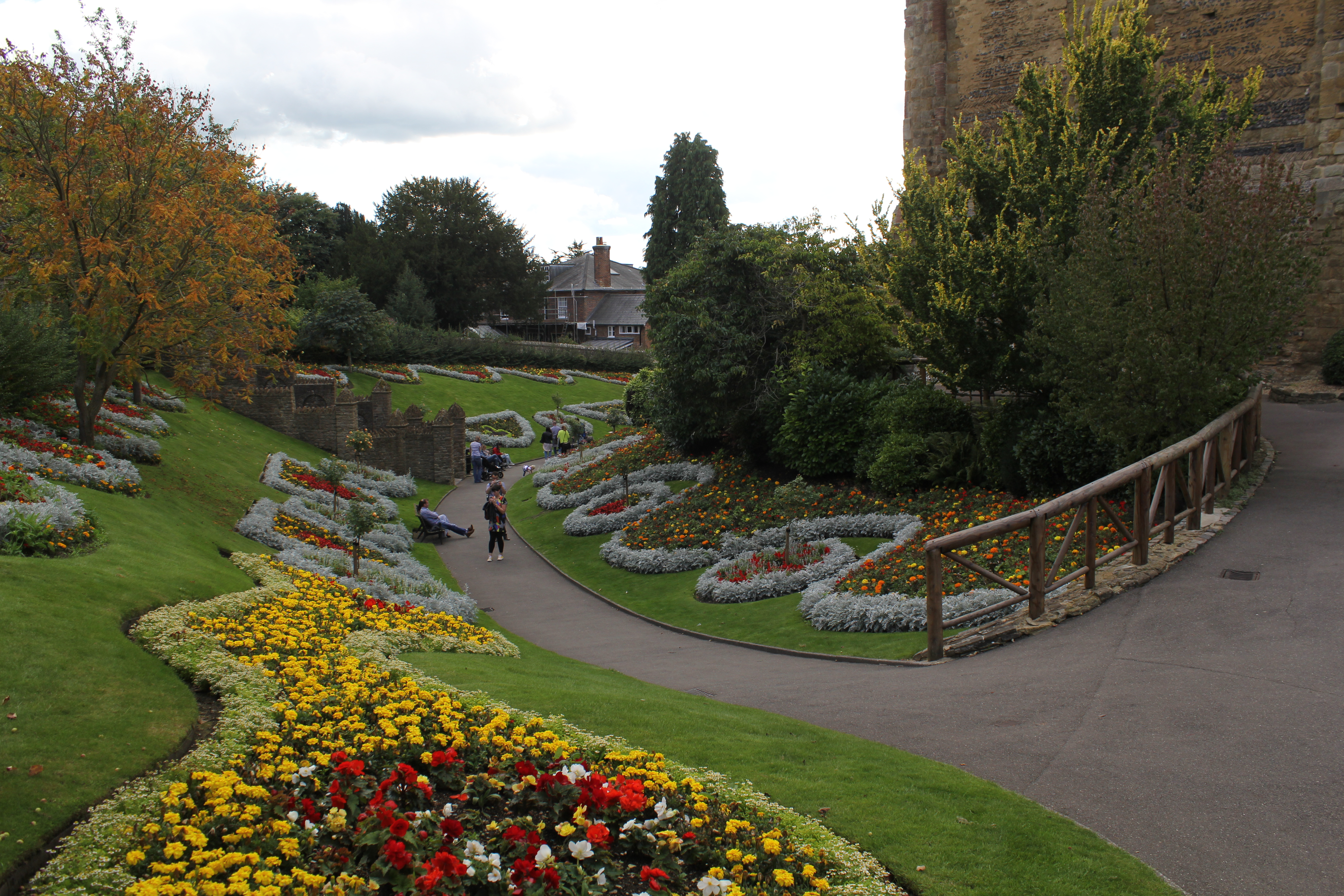 Guildford Castle, 2015 (21) This file was generated using WMUK's equipment.